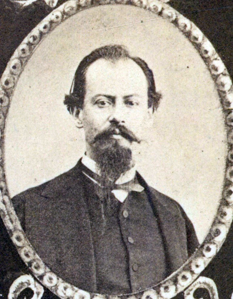 General Miguel Miramón, former president of Mexico.